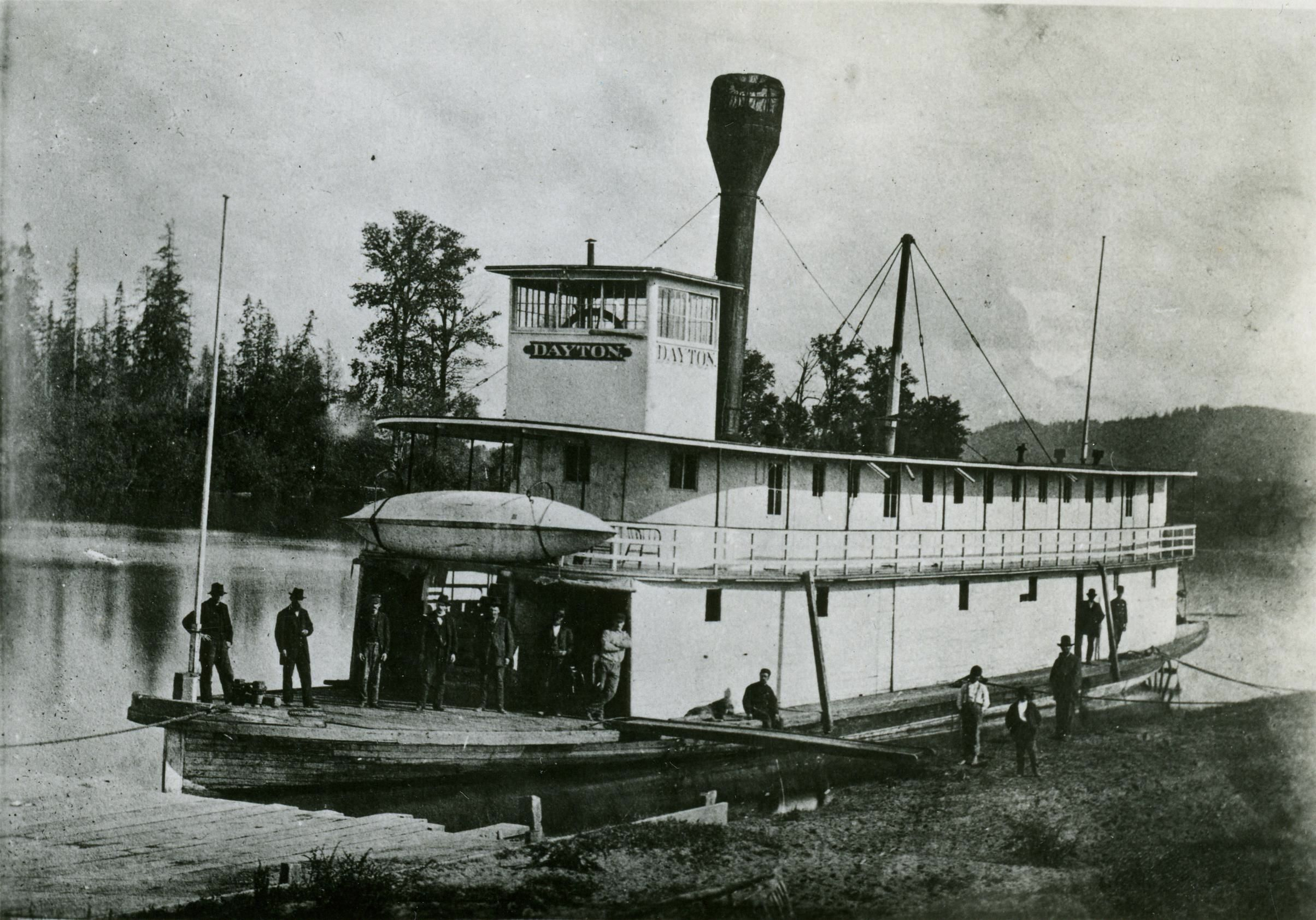 Steamer Dayton, somewhere in Oregon or SW Washington.